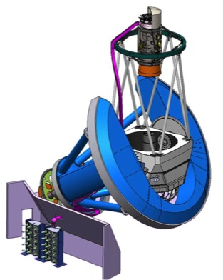 DESI instrument design concept shown on the Mayall Telescope.